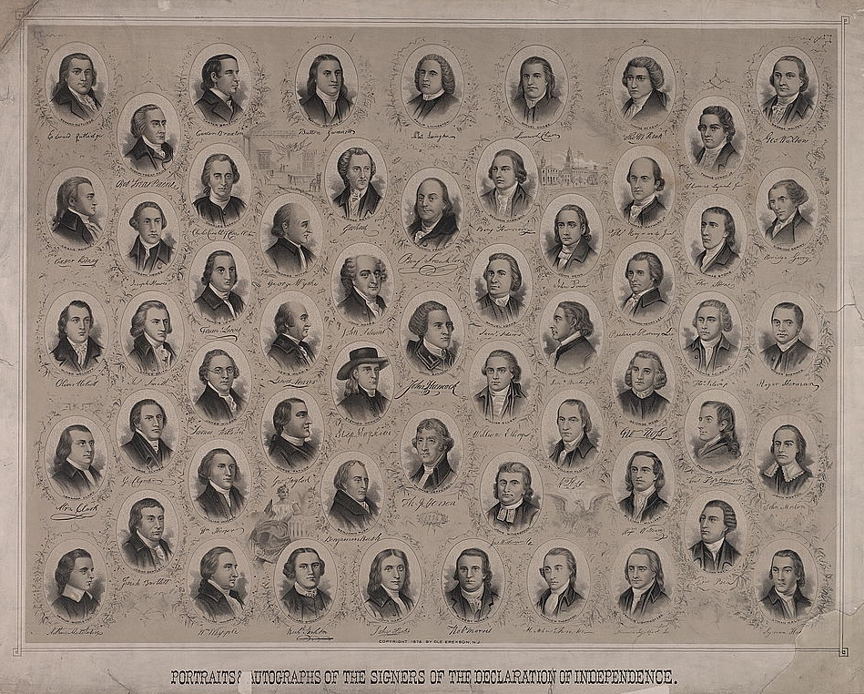 Portraits & autographs of the signers of the Declaration of Independence